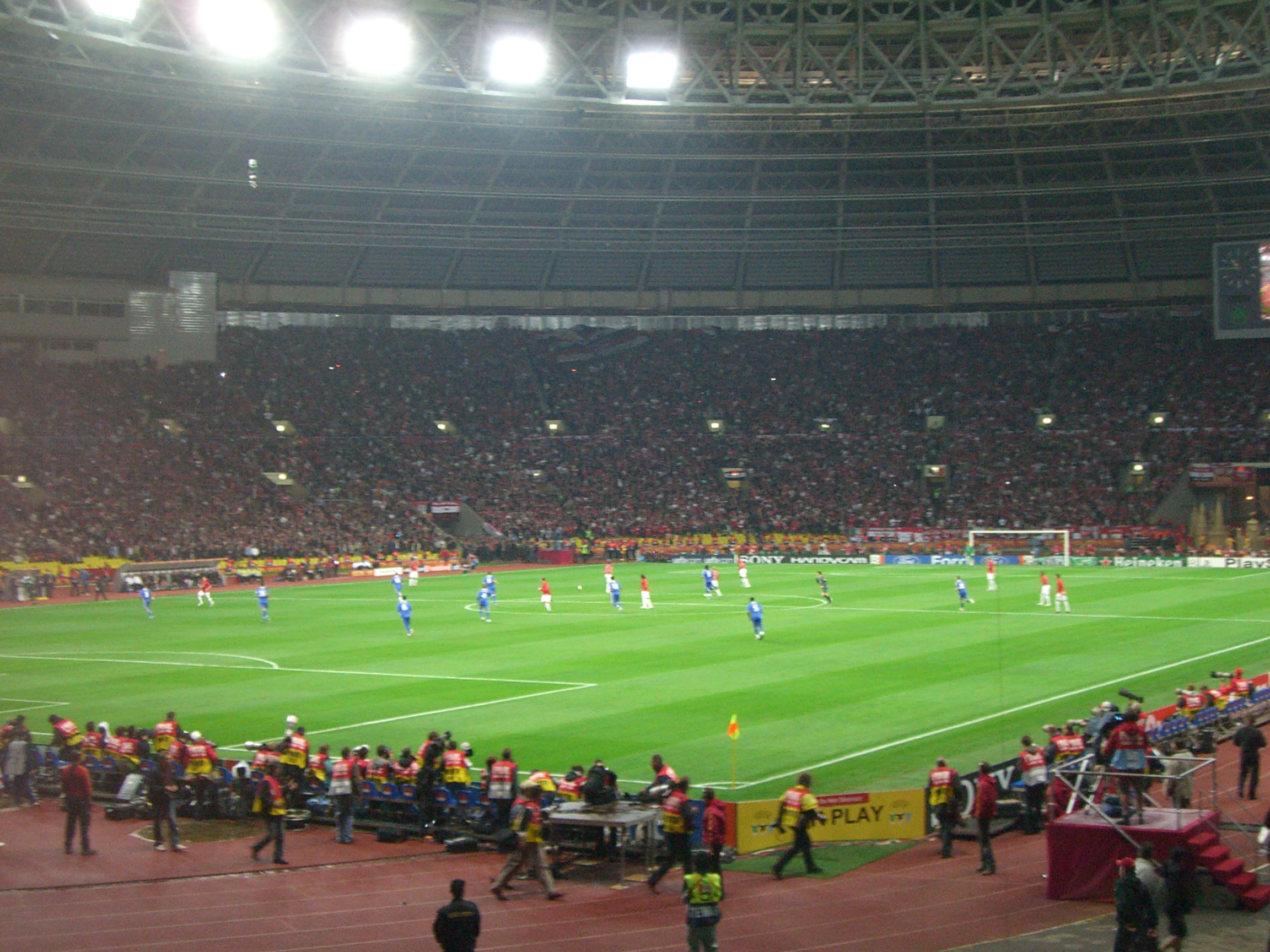 Manchester United in possession in the 2008 UEFA Champions League Final against Chelsea at the Luzhniki Stadium, Moscow, on 21 May 2008